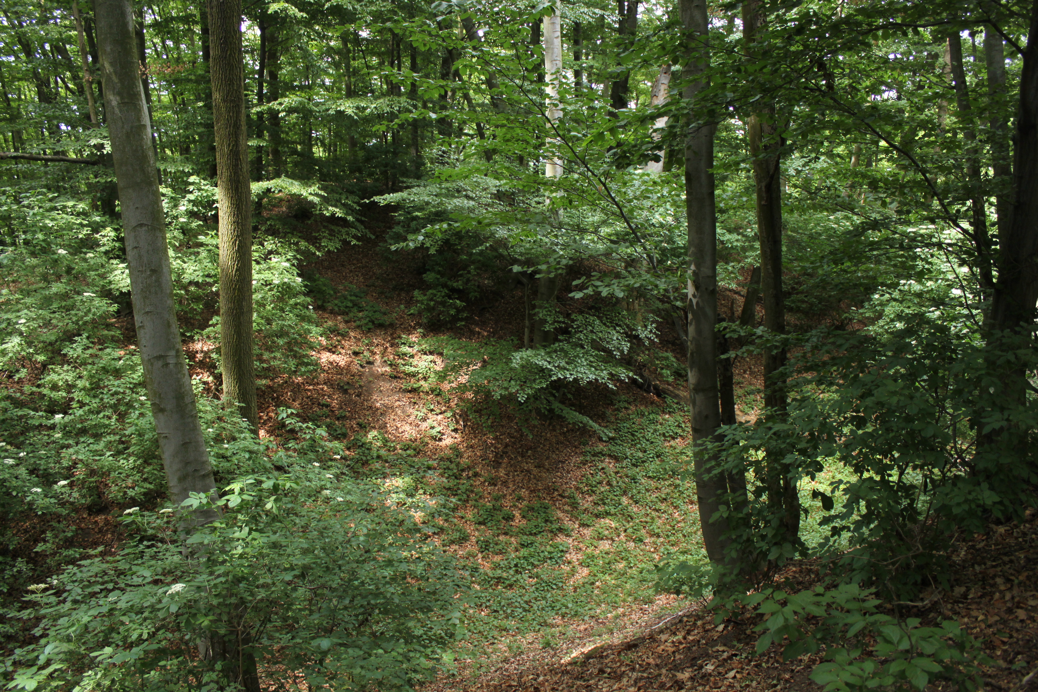 Nature reserve "Na Hradech" in Pardubice District, Czech Republic.